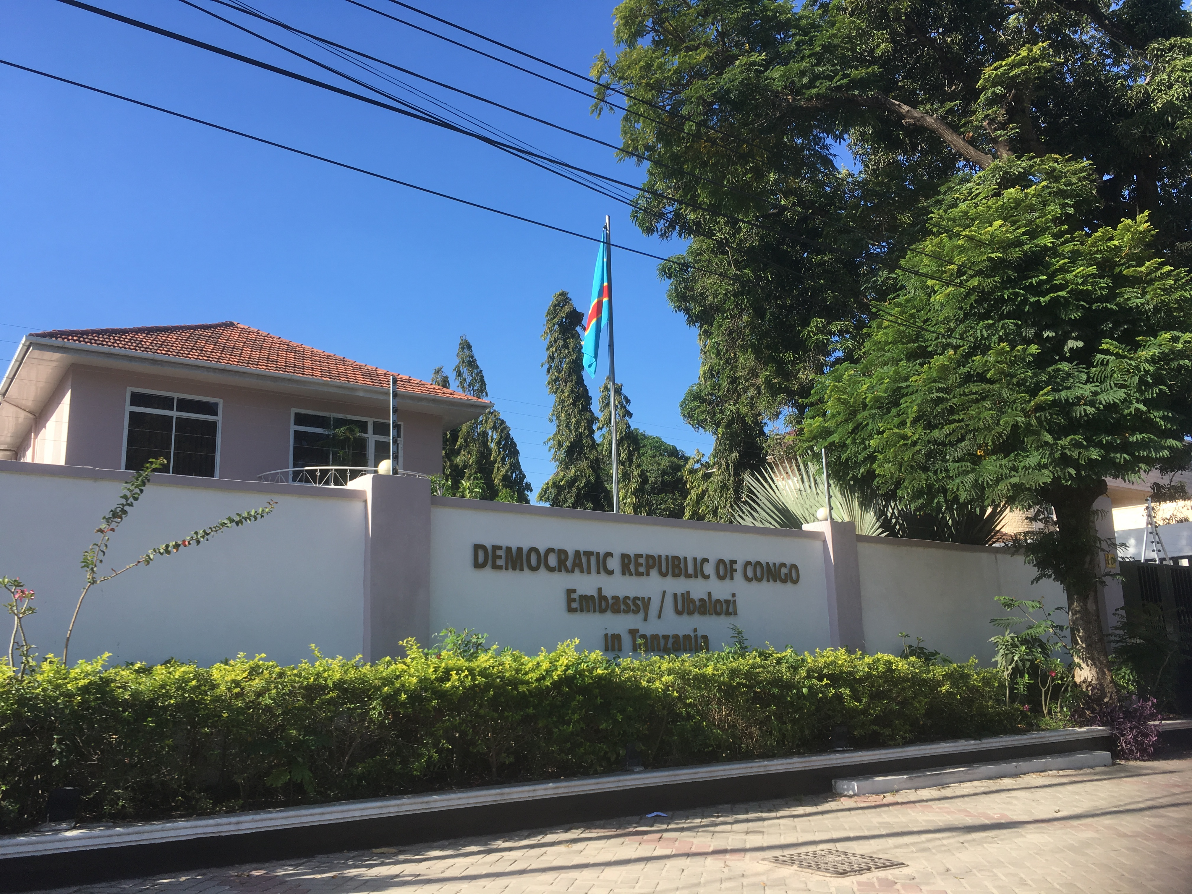 Embassy of the Democratic Republic of the Congo in Dar es Salaam, Tanzania.